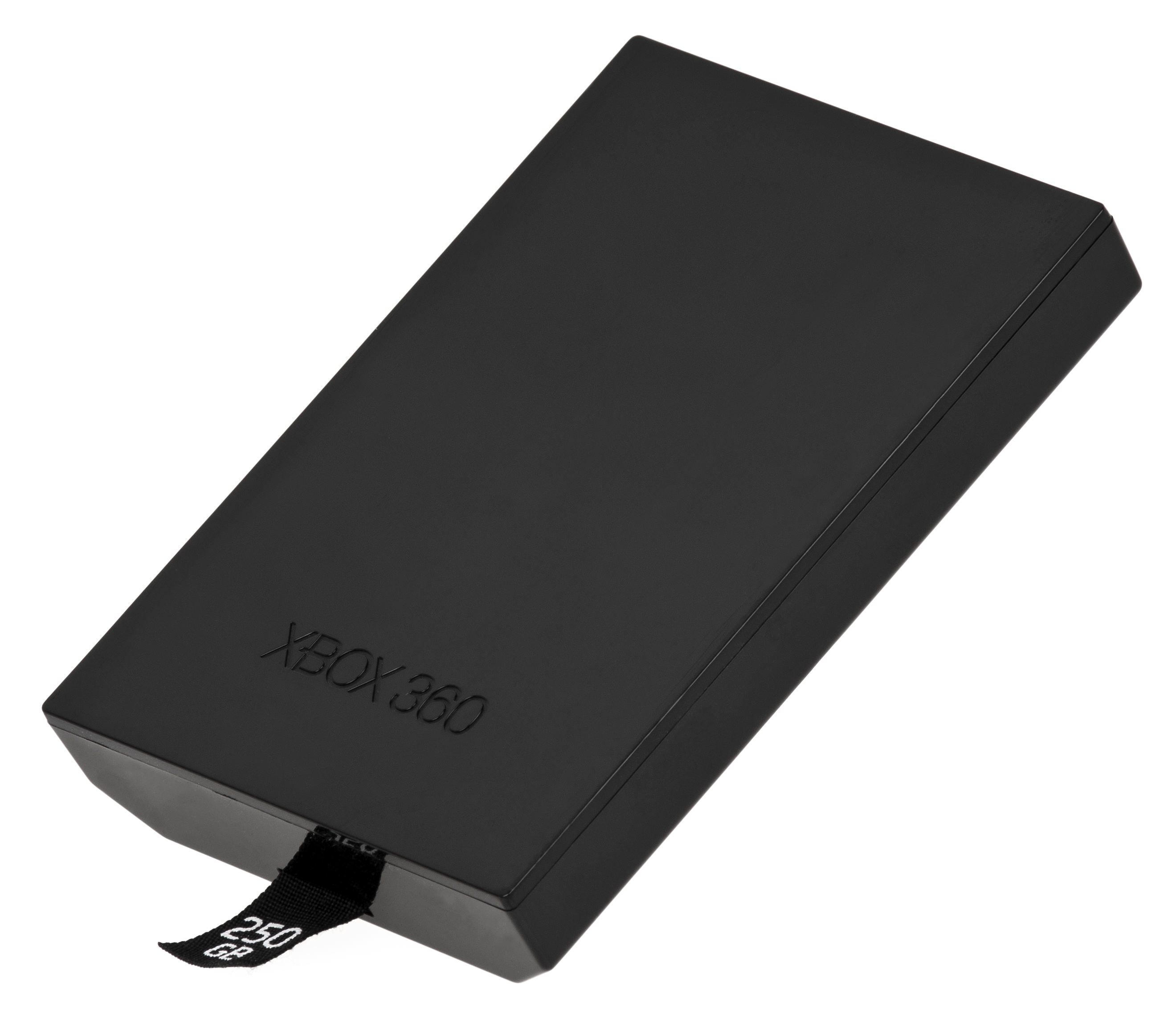 An Xbox 360 S 250GB swappable hard drive.